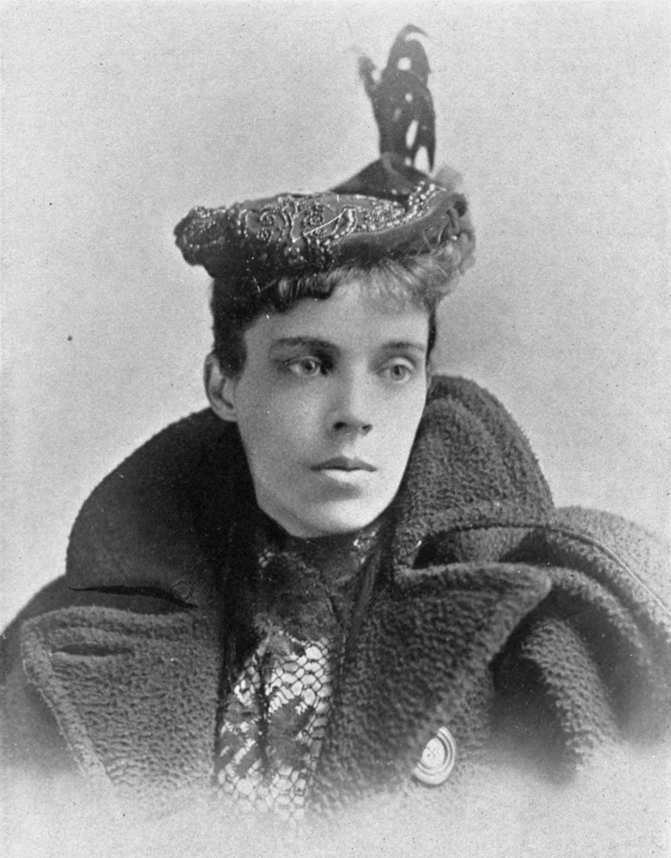 A young white woman wearing a flat cap with a plume, and a bulky coat with wide lapels.